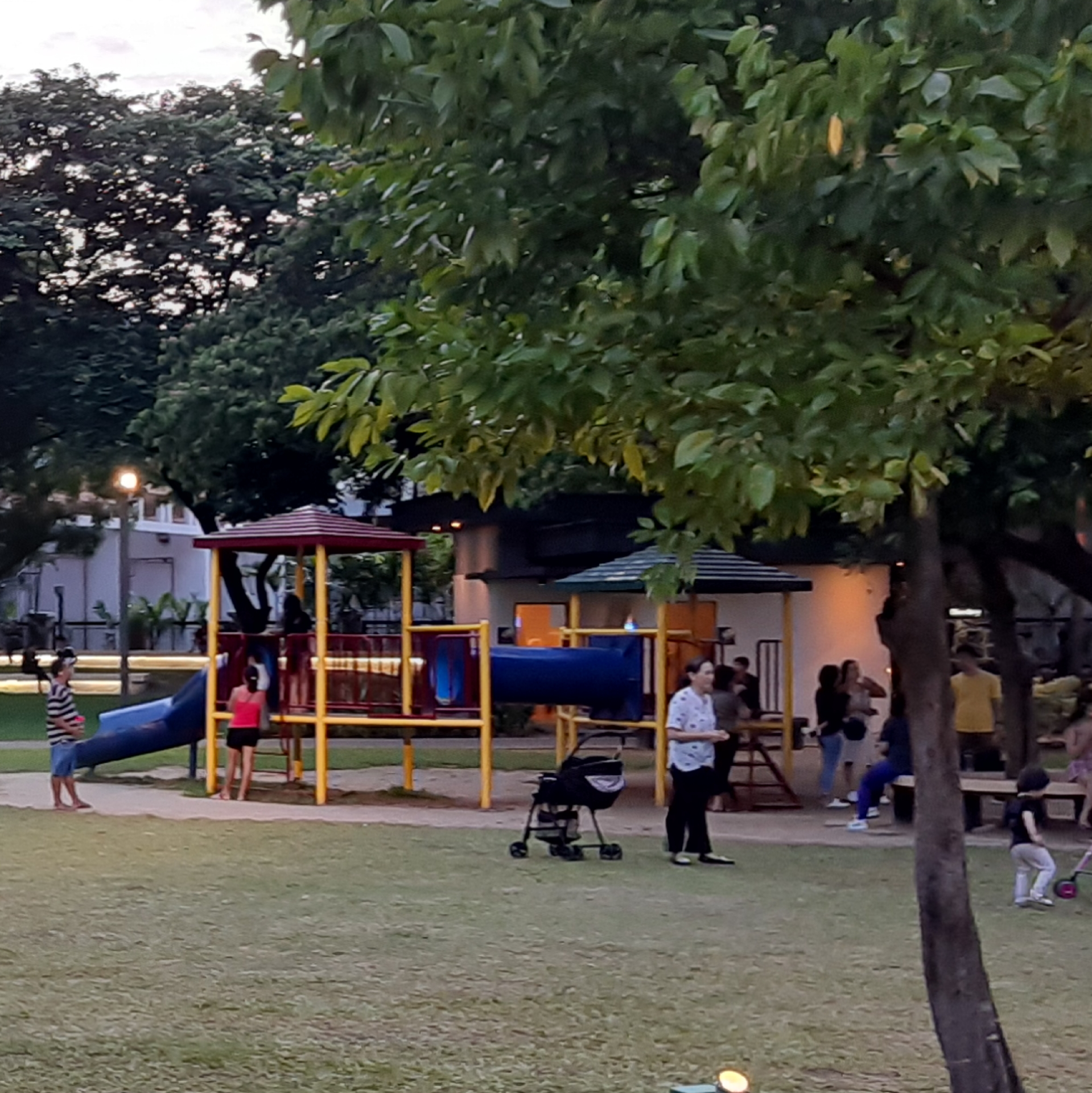 Legazpi Active Park in San Lorenzo Village, Makati CBD, Metro Manila